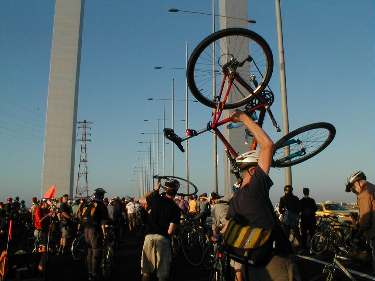 Melbourne Critical Mass on the Bolte Bridge.